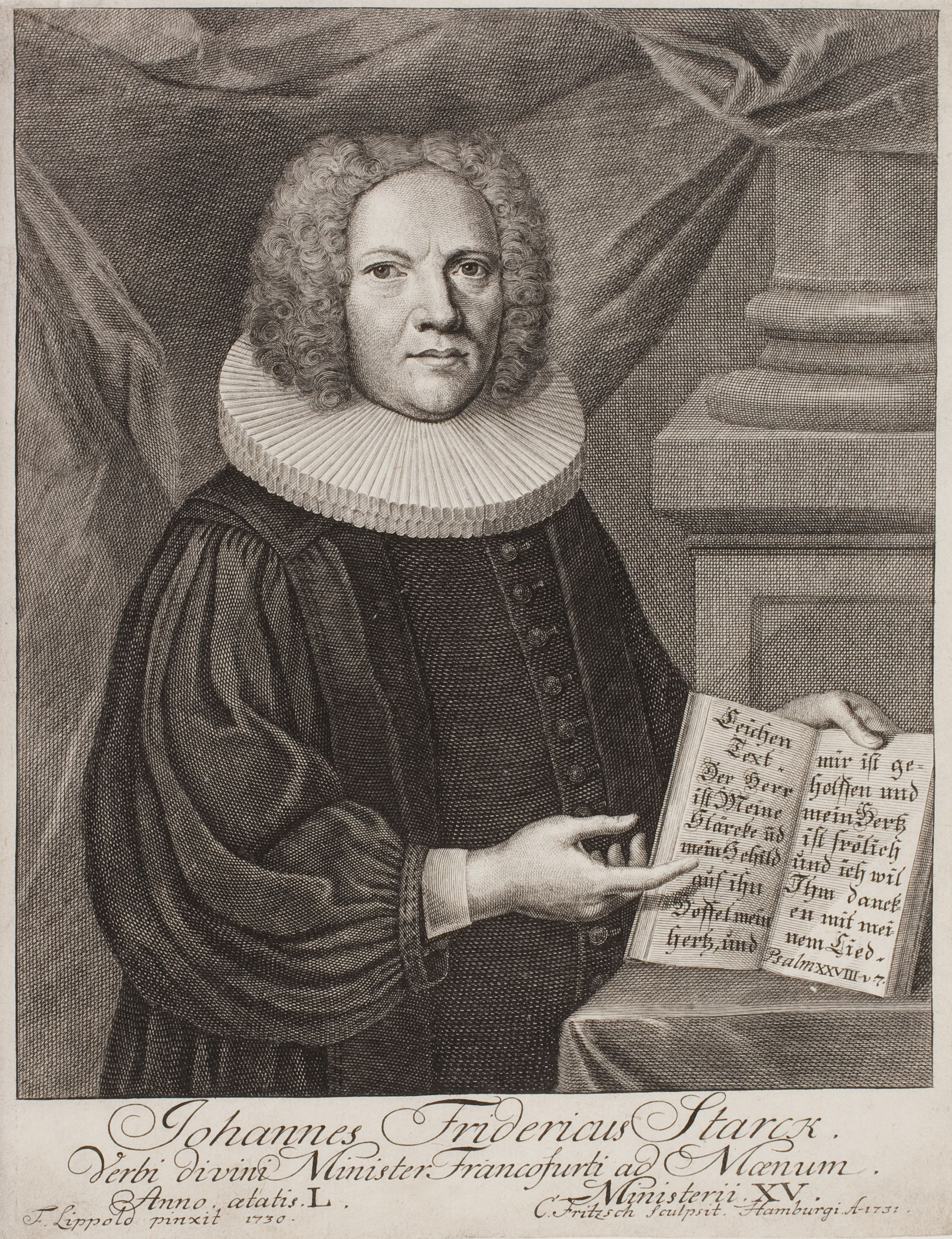 Portrait of Johann Friedrich Starck (1680-1756), German author and theologian